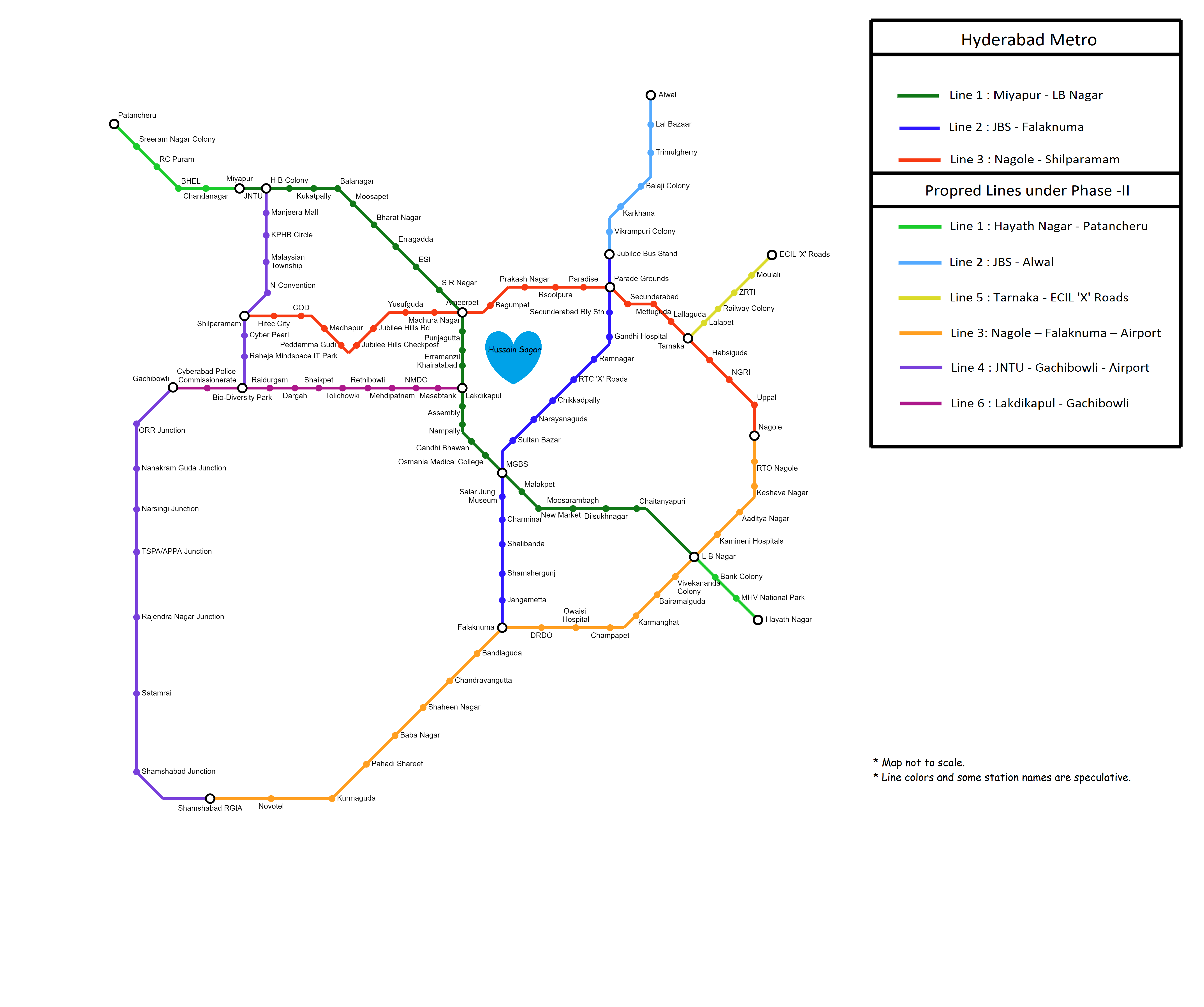 Hyderabad Metro Rail Proposed Lines